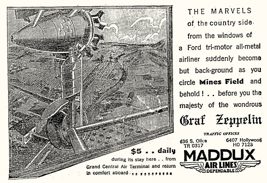 Advertisement for scenic airplane rides on Maddux Airlines from Grand Central Air Terminal, Glendale, CA, to see the German airship Graf Zeppelin at Mines Field, Los Angeles, scanned from the Los Angeles TIMES, August 26, 1929 Source: The Cooper Collection of US Aviation History Photograph by uploader.